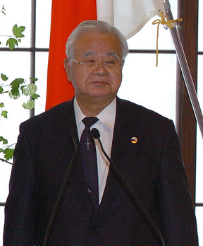 Tom J. Donohue, President and CEO of the United States Chamber of Commerce, Hillary Rodham Clinton, Secretary of State, Takeaki Matsumoto, Minister for Foreign Affairs, and Hiromasa Yonekura, Chairman of the Nippon Keidanren, addressed the press at the Iikura Guest House in Minato Ward, Tōkyō Metropolis on April 17, 2011.